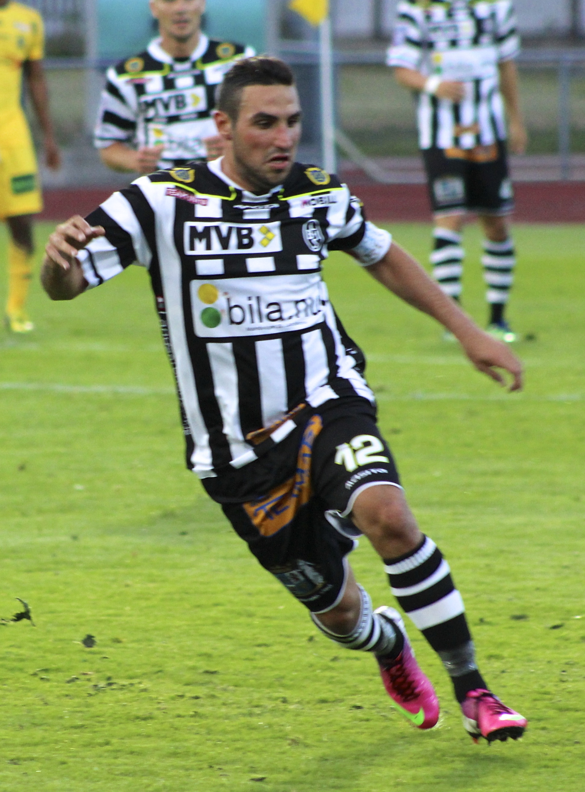 Alex Nilsson, Landskrona BoIS